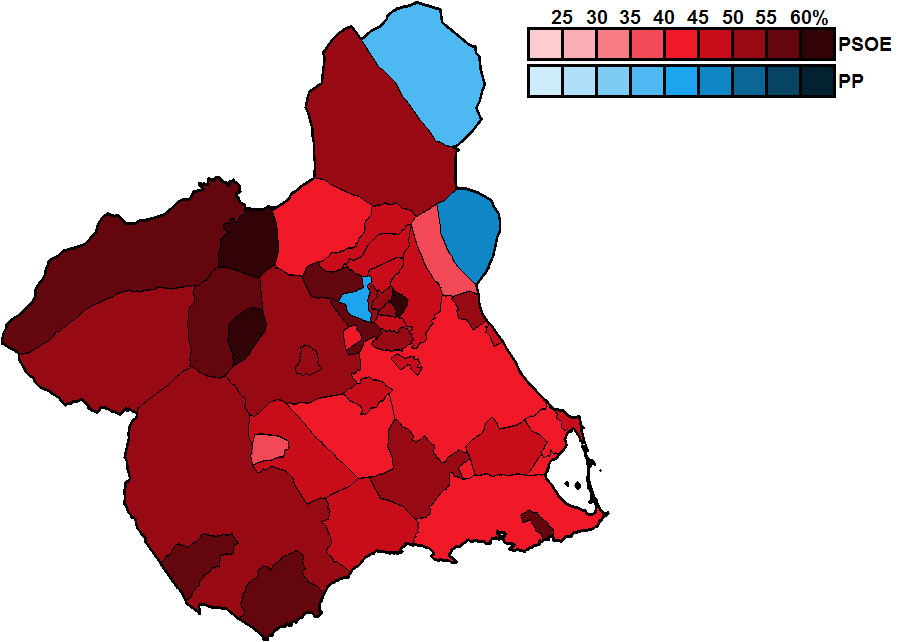 Most-voted party in Murcia municipalities, showing vote share obtained, in the Spanish general election, 1989.